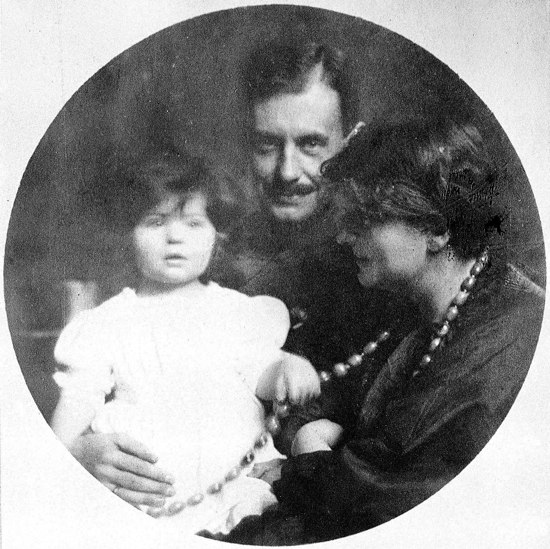 Manon Gropius with her parents Alma Mahler-Werfel and Walter Gropius, 1918